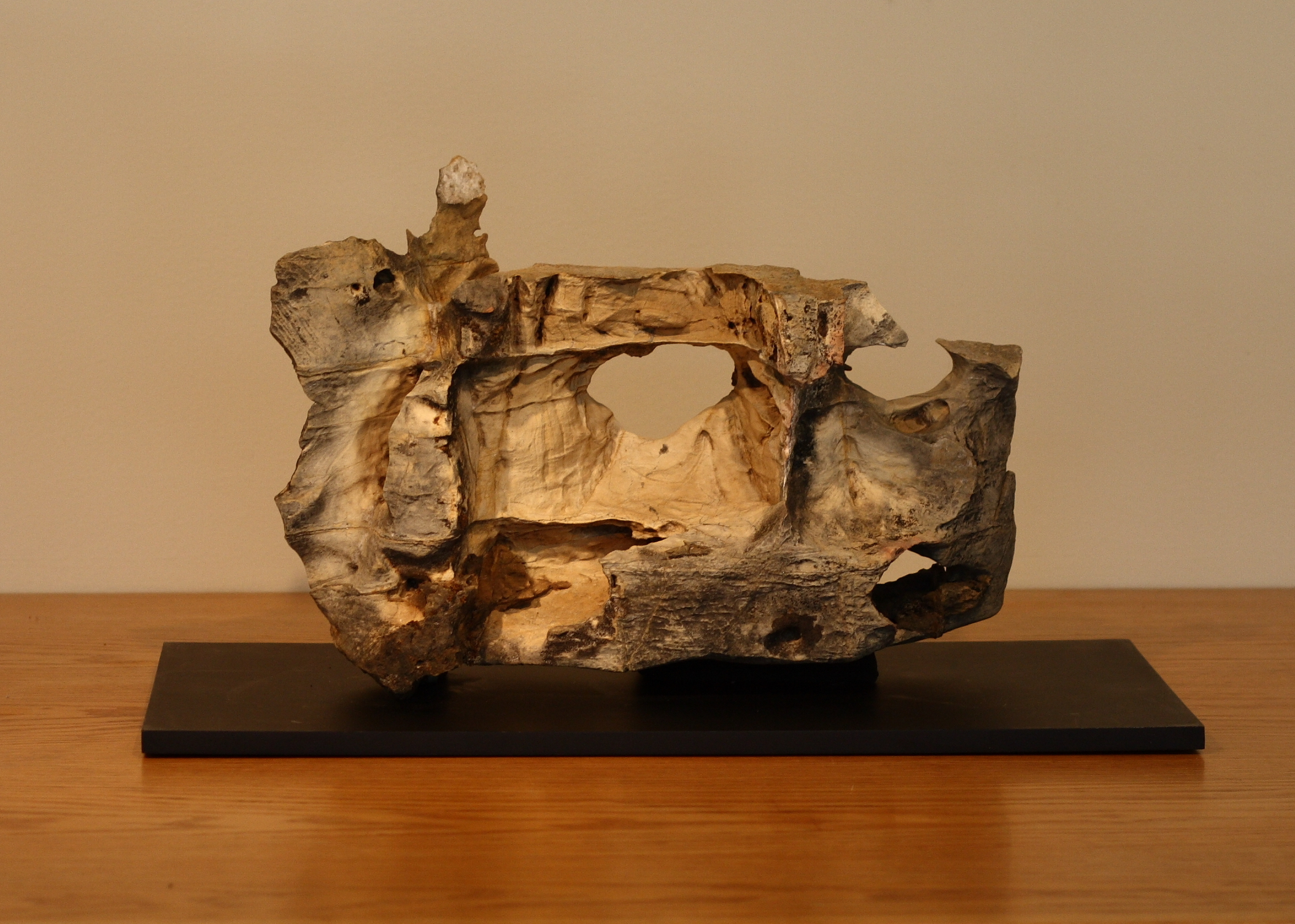 "The Ruins", a Desert Landscape - Window Rock collected in Calaveras County, California, on display at the National Bonsai & Penjing Museum at the United States National Arboretum